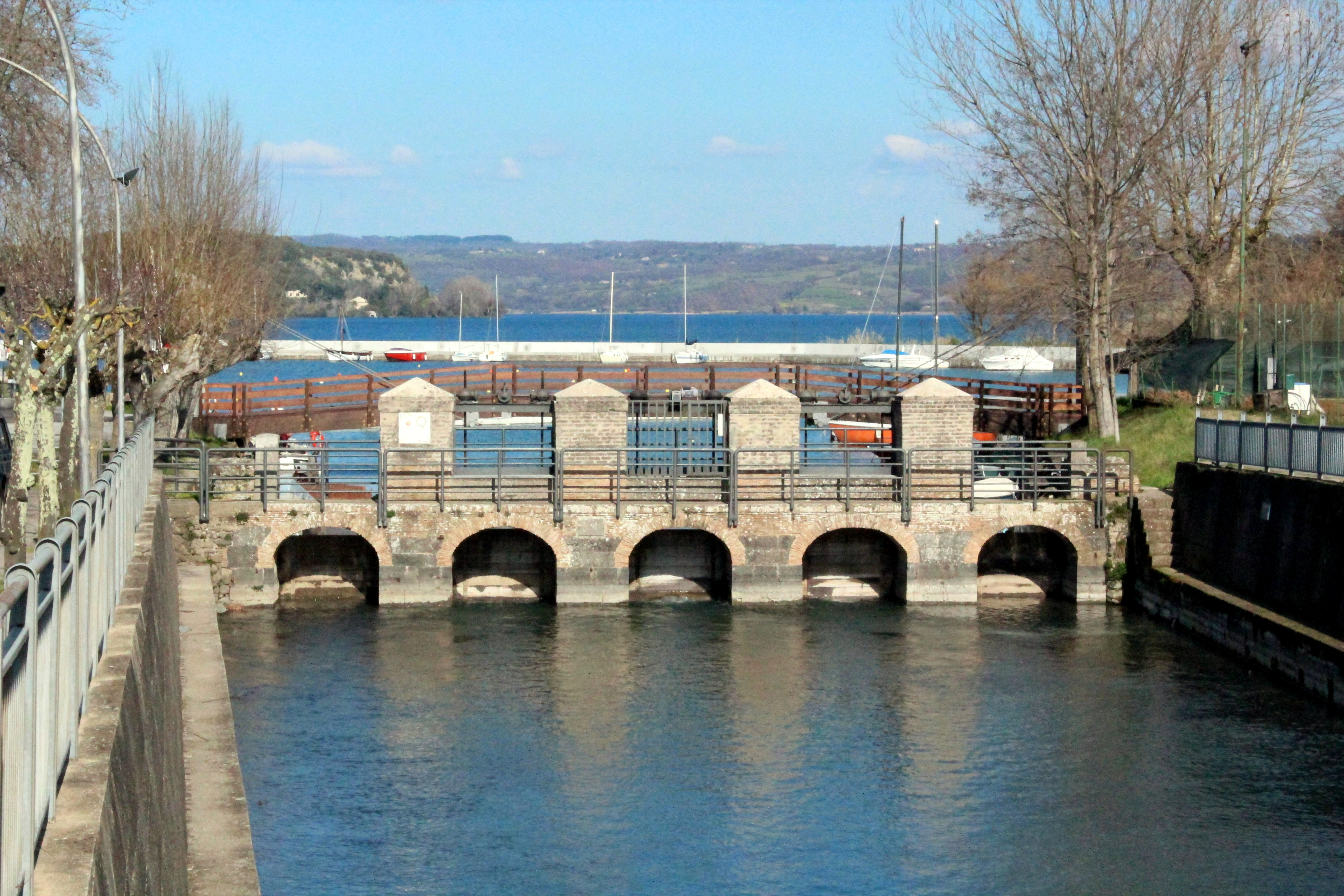 The Marta River at the beginning coming from the Lake Bolsena (Porto/Harbour of Marta), Marta, Lazio, Italy